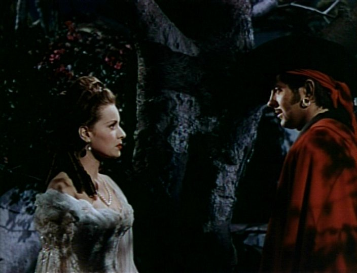 Tyrone Power and Maureen O'Hara in a screenshot from the trailer for the film The Black Swan.